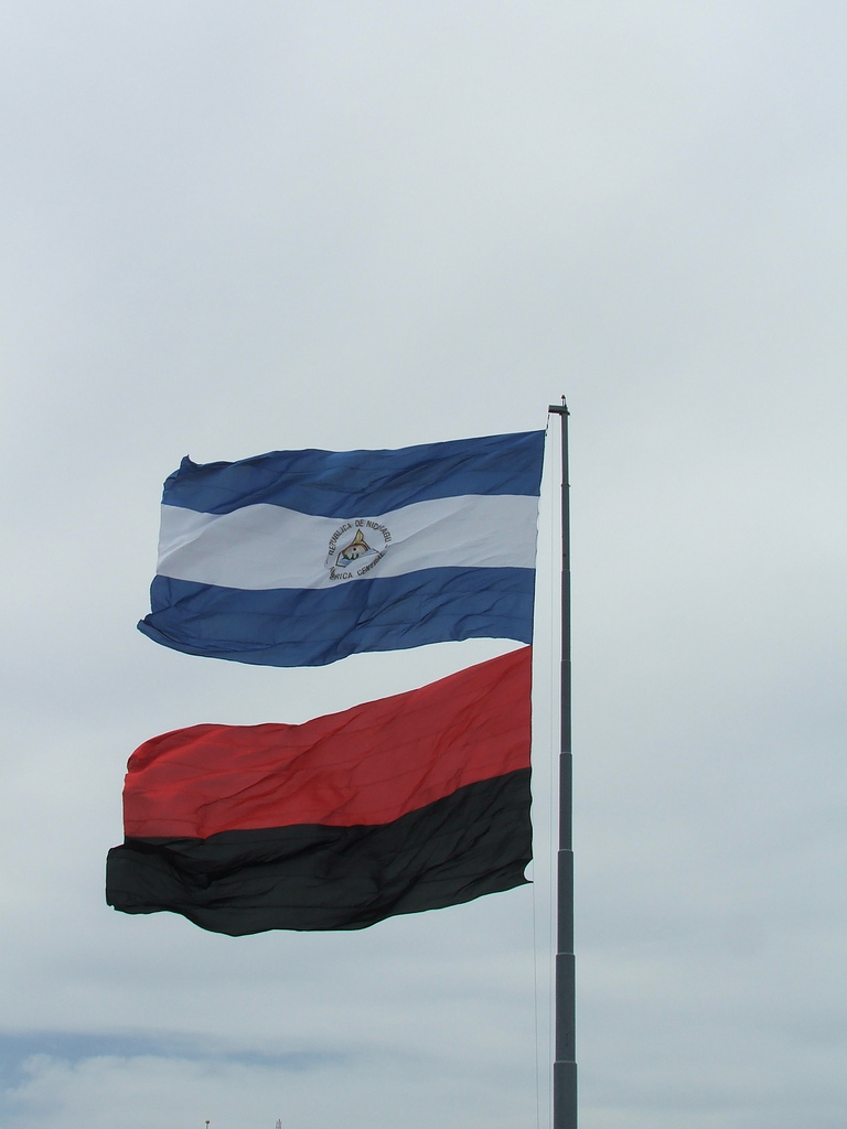 Nicaraguan and Sandinista flags